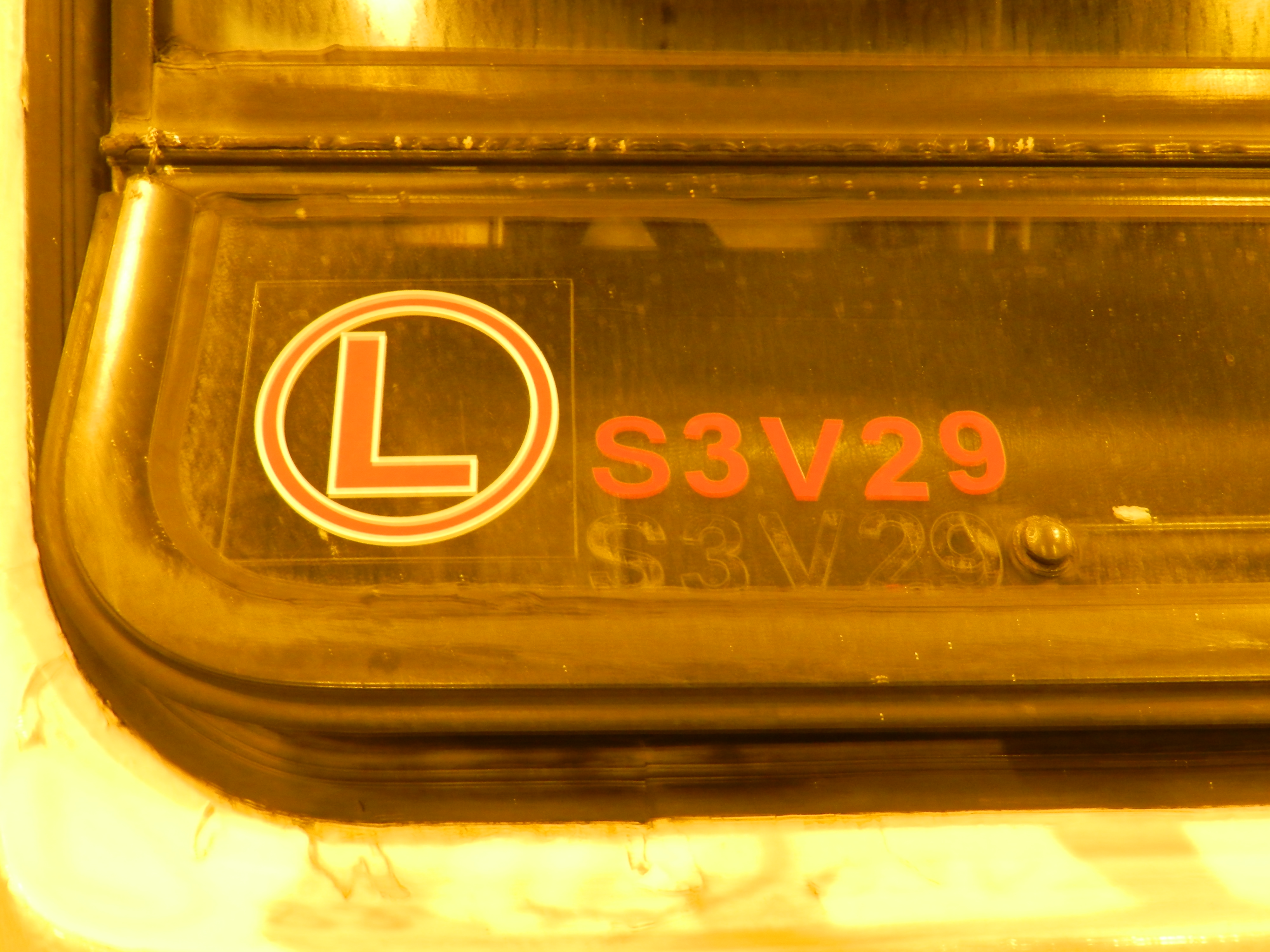 The label of the KMB Lai Chi Kok Depot.